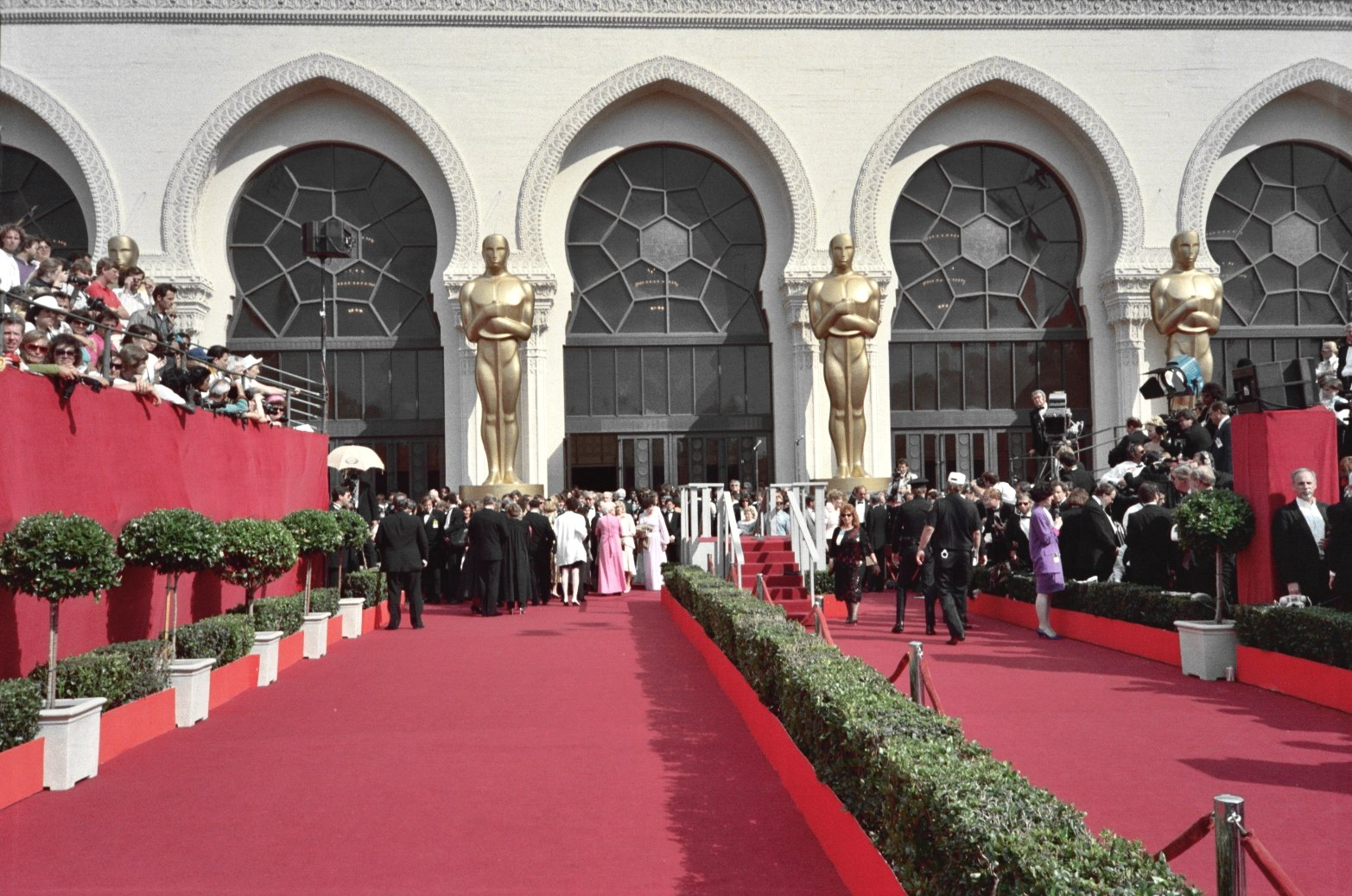 1988 Academy Awards NOTE: Permission granted to copy, publish, broadcast or post any of my photos, but please credit "photo by Alan Light" if you can. Thanks. Scanned from the original 35MM film negative.